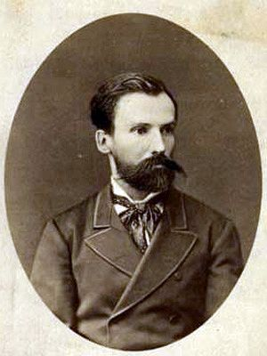 Yevgeny Aleksandrovich Lanceray (1848–1886) was a Russian animal sculptor.